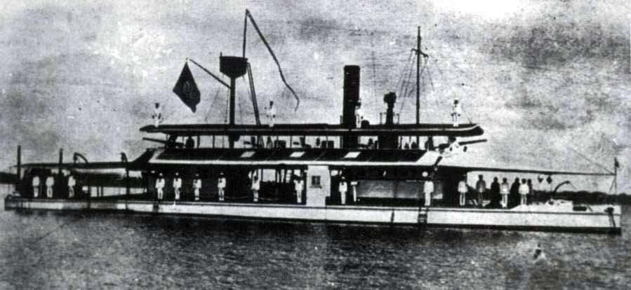 river gunboat Acre-class Amapá (1904)